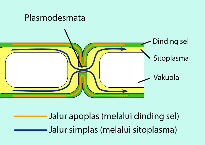 this picture shows the apoplast pathway and the symplast pathway, which are two ways for plants to transport water from roots to the xylem.